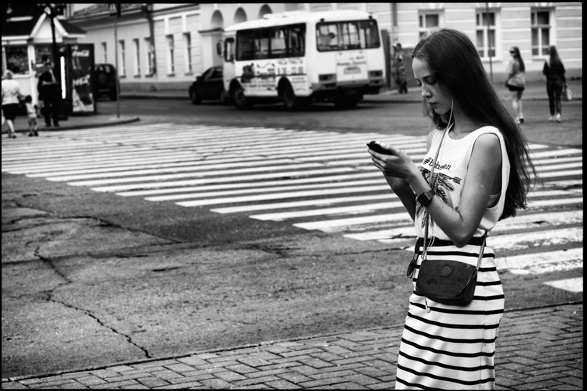 Girl in hipster top and skirt on the street, looking down at her cell phone